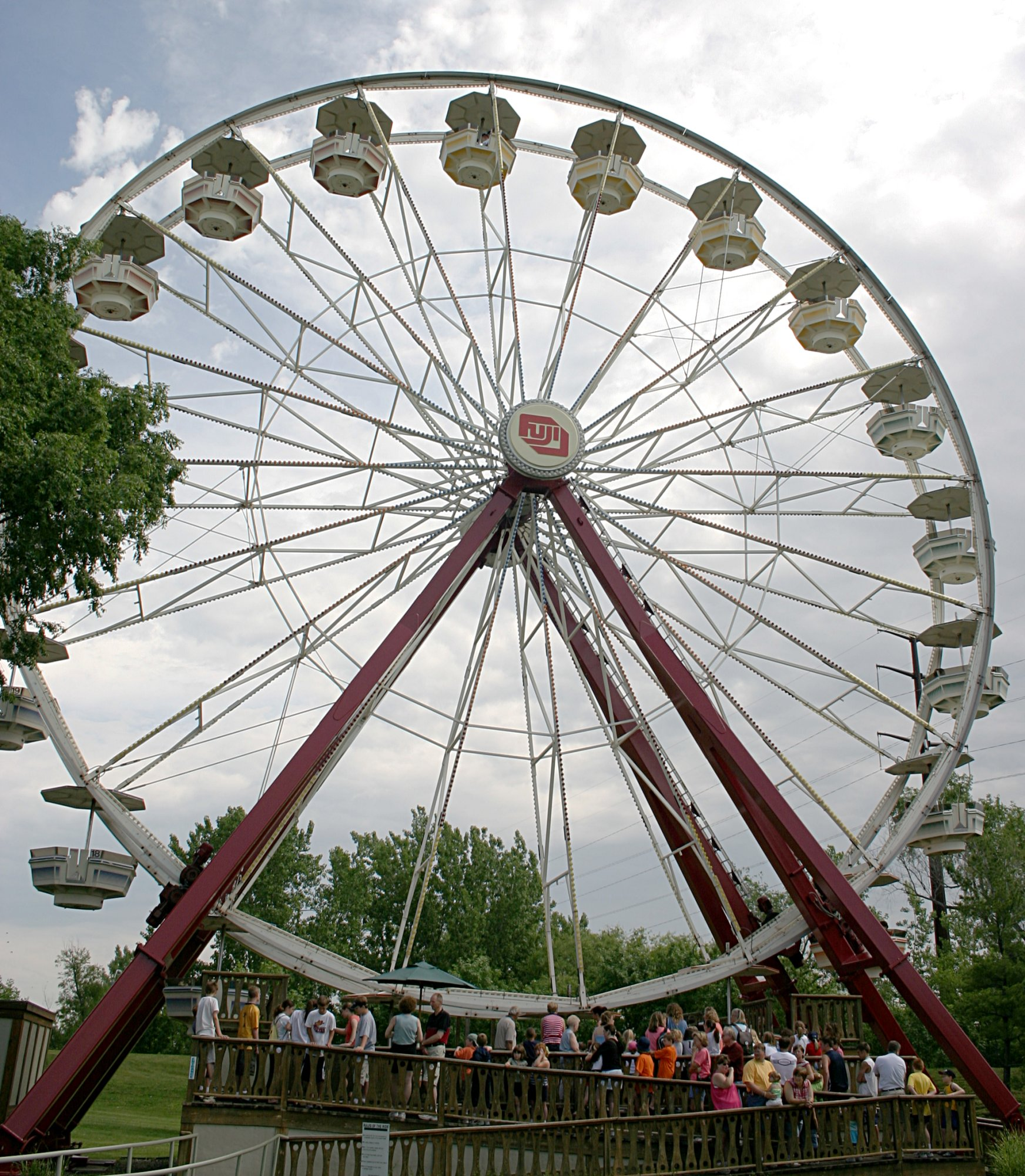 The Giant Skywheel (an opne-gondola Ferris wheel) at Adventureland in Altoona, Iowa.